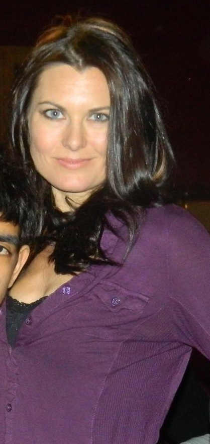 Katarina Waters of TNA known as Winter